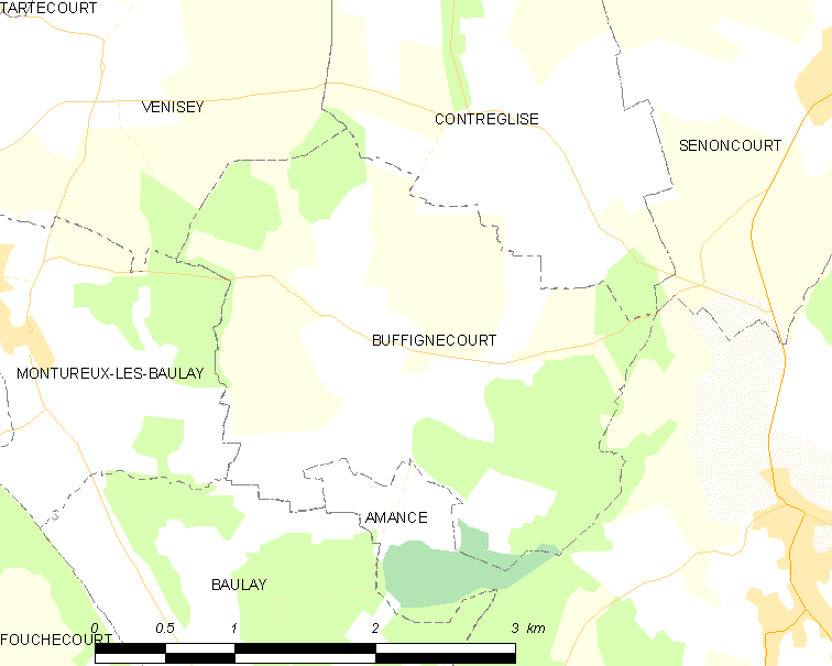 Map of French municipality